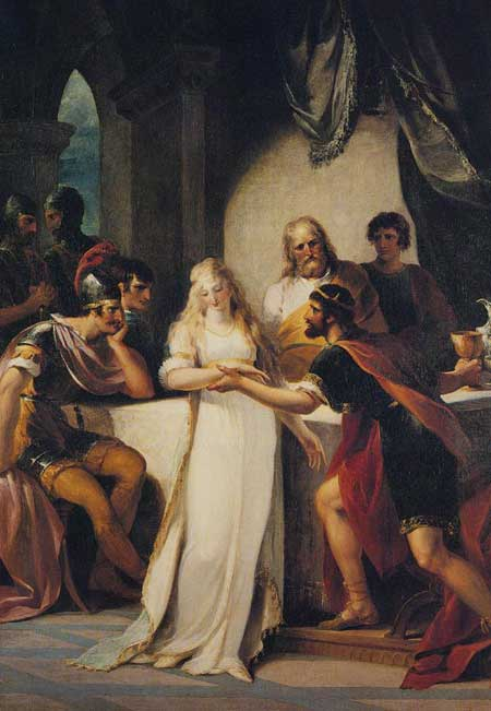 one of Hamilton's Vortigern & Rowena paintings.